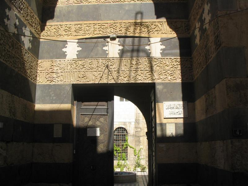 The entrance to the Az-Zahiriyah Library in Damascus